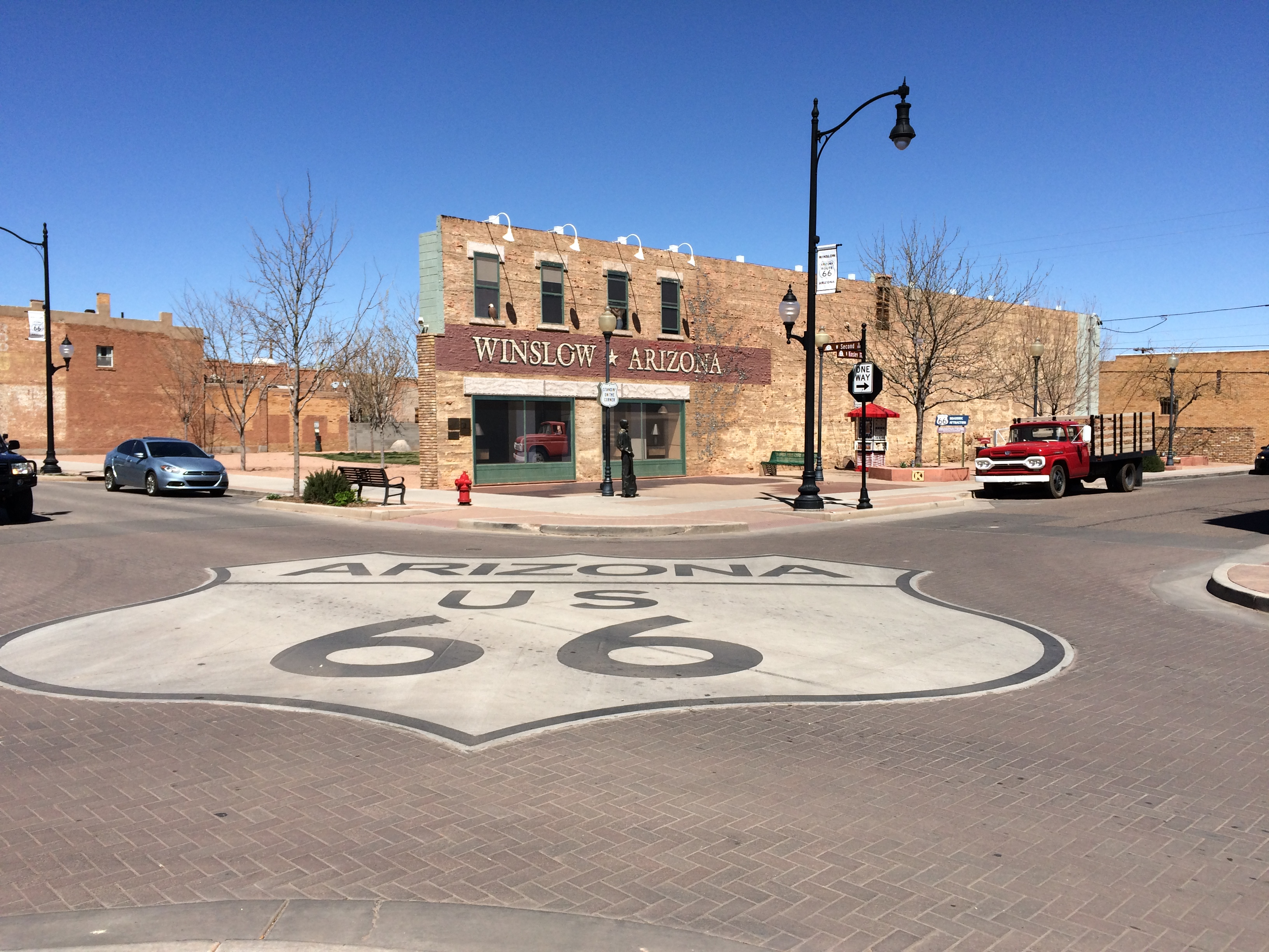 Route 66 marker is painted on the road at Standing on the Corner Park, Winslow, Arizona, complete with a flat bed Ford truck